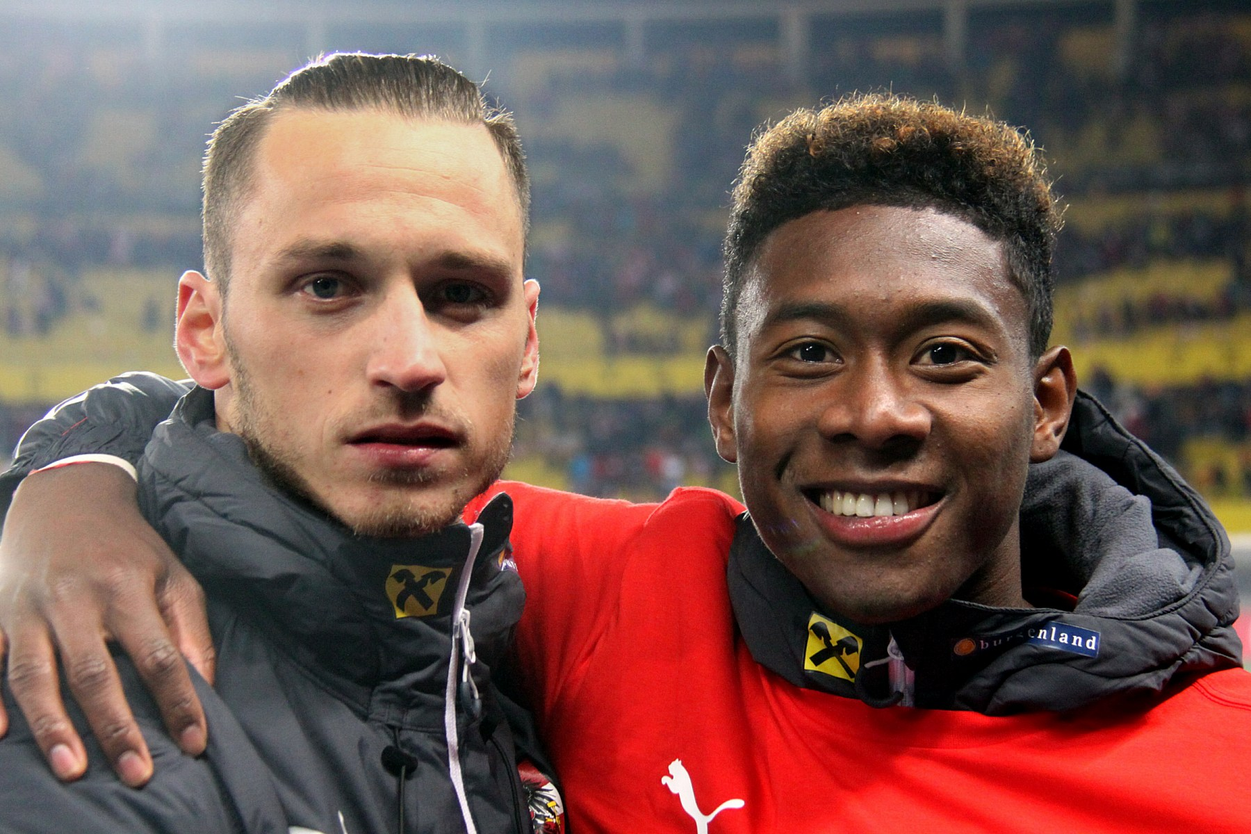 UEFA Euro 2016 qualifying, Group G – Austria (red shirts) vs. Liechtenstein (blue shirts) 3–0 (1–0) on 2015-10-12 in Ernst-Happel-Stadion, Vienna – The photo shows Marko Arnautovic (left) and David Alaba (right).